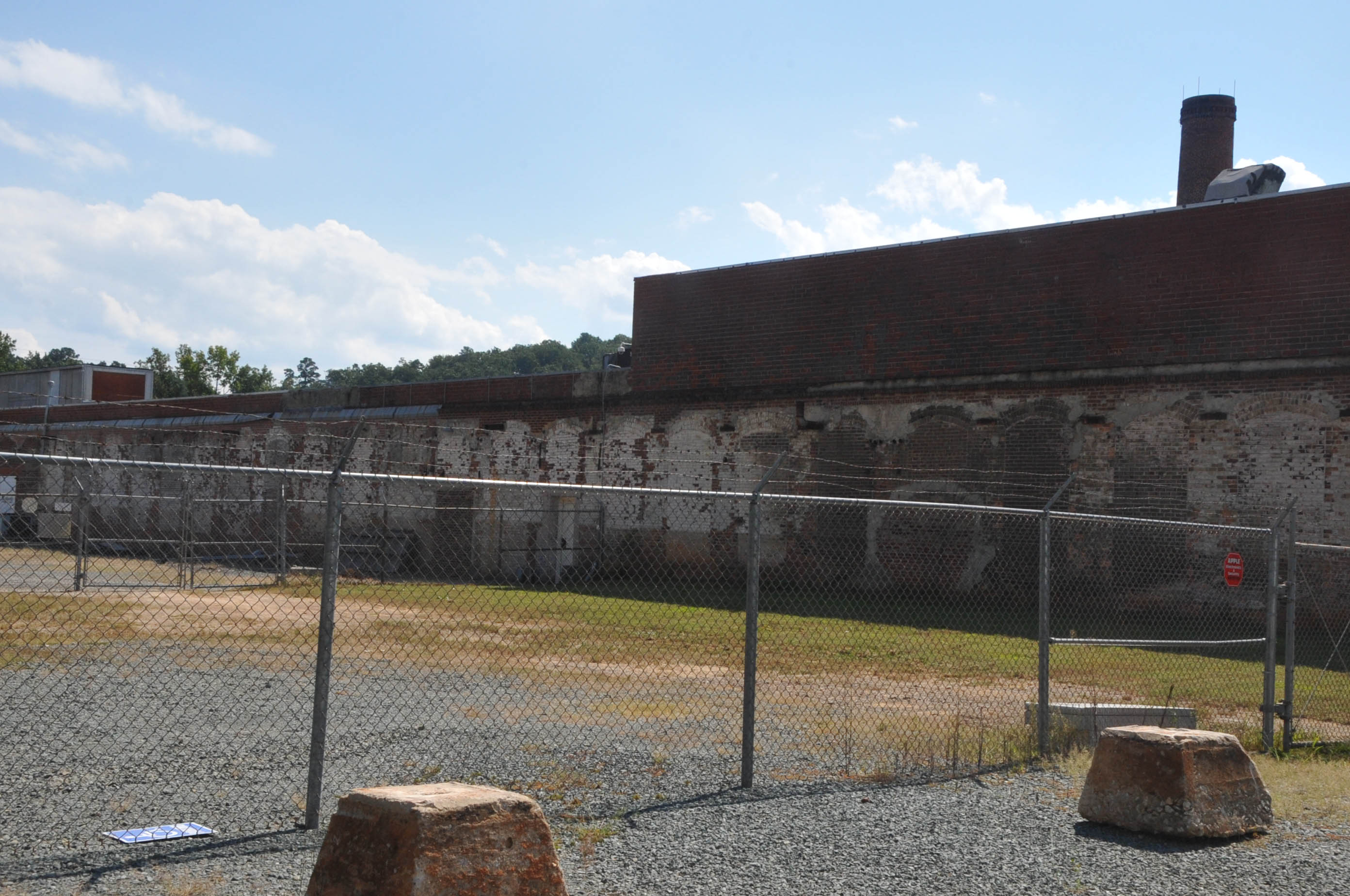 CONSTRUCTION OF THE ENO COTTON MILL BEGAN IN1896 WEST OF HILLSBOROUGH ON THE ENO RIVER. THE RIVER INITIALLY PROVIDED THE POWER. IT IS NOW PARTIALLY ABANDONED WITH OTHER PORTIONS PART OF A HILLBOROUGH BUSINESS COMPLEX